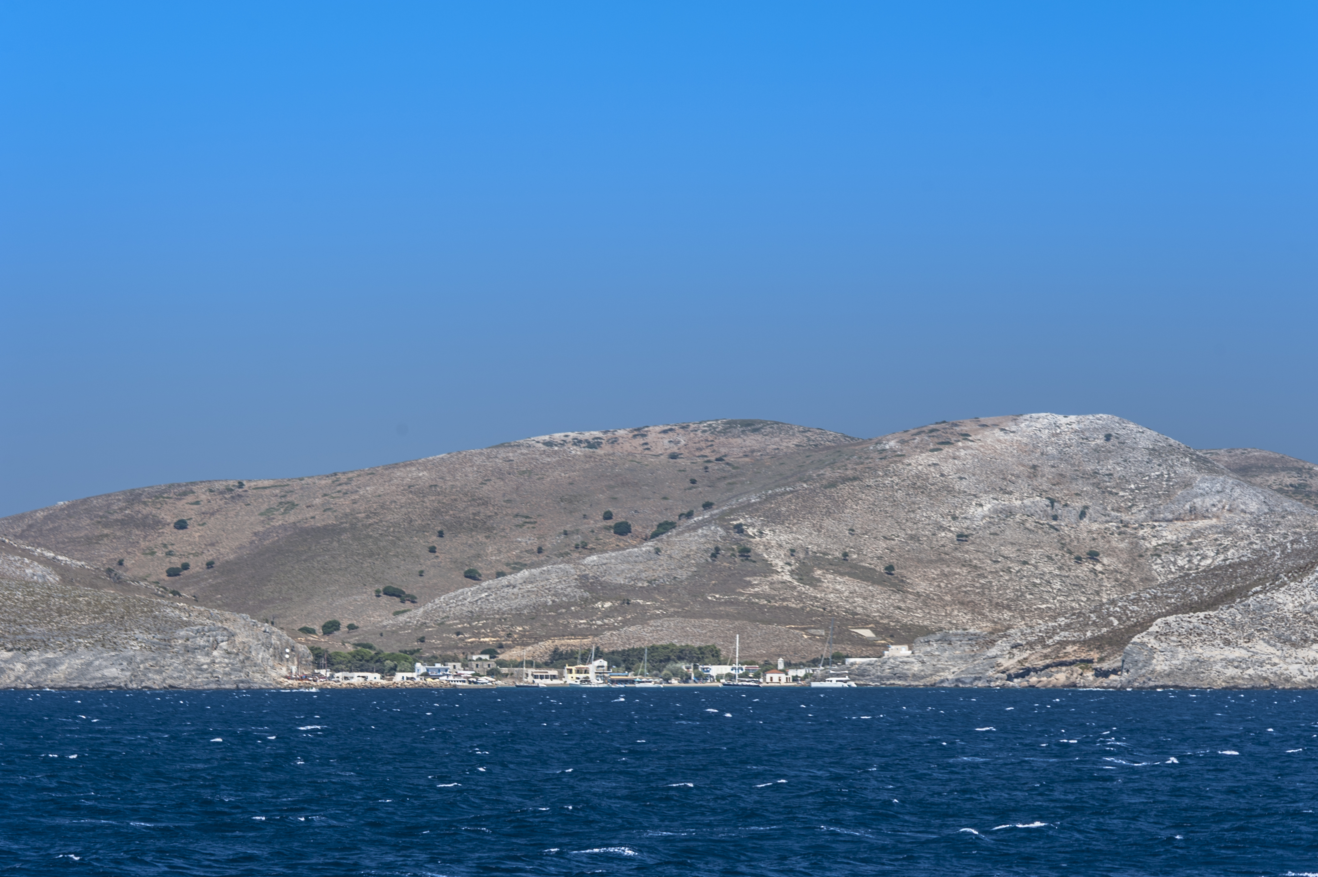 This is a photography of Natura 2000 protected area with ID GR4210010